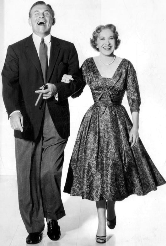 Publicity photo of George Burns and wife Gracie Allen.